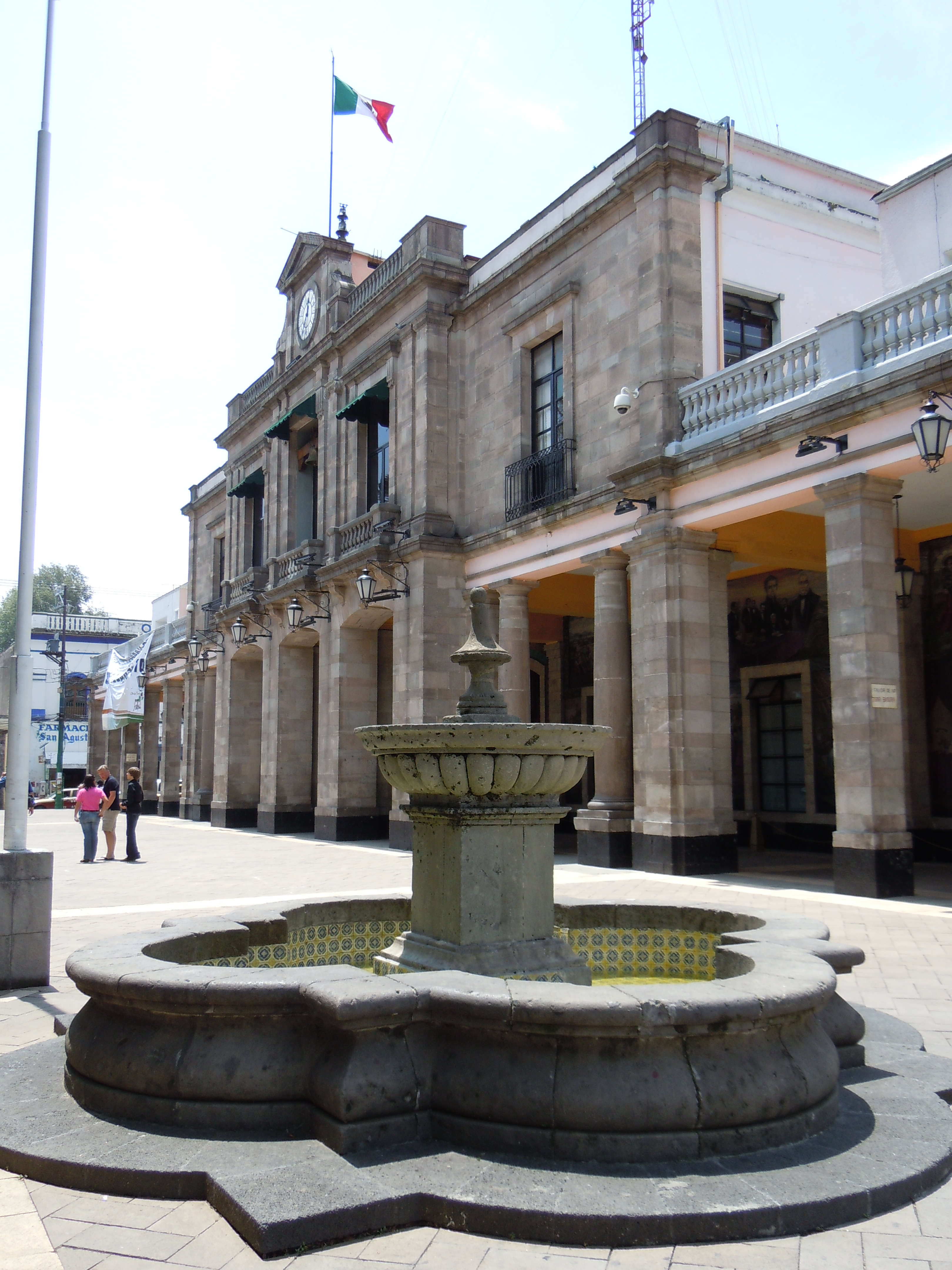 Part of the Edificio Delegacional and the Plaza de la Constitución in Tlalpan/Mexico-City